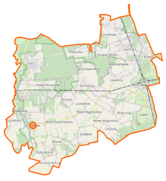 Map of Gmina Prażmów, Poland This map of Prażmów (gmina) was created from OpenStreetMap project data, collected by the community. This map may be incomplete, and may contain errors. Don't rely solely on it for navigation.